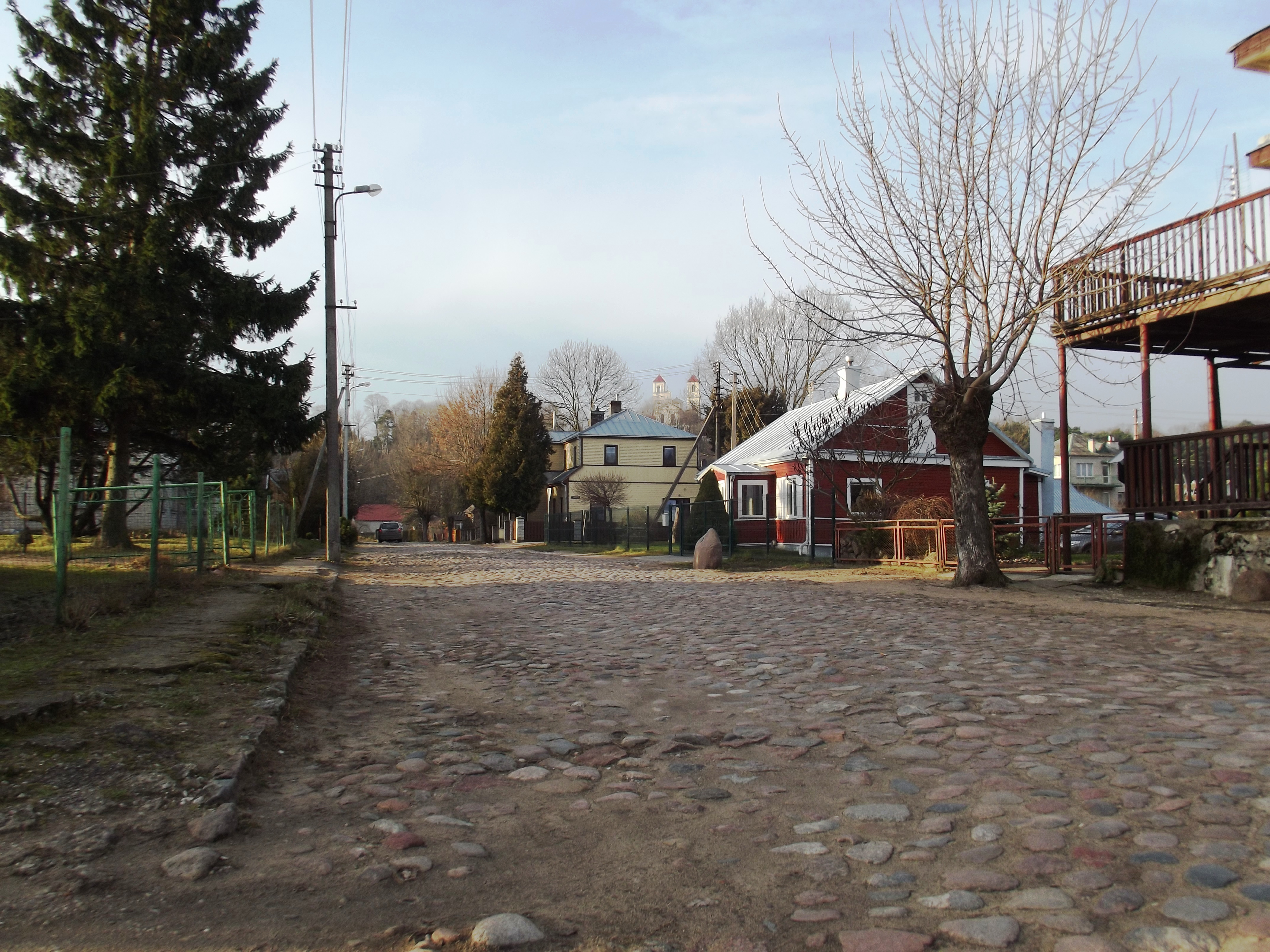 Cobblestoned street in Raudondvaris, Kaunas district, Lithuania